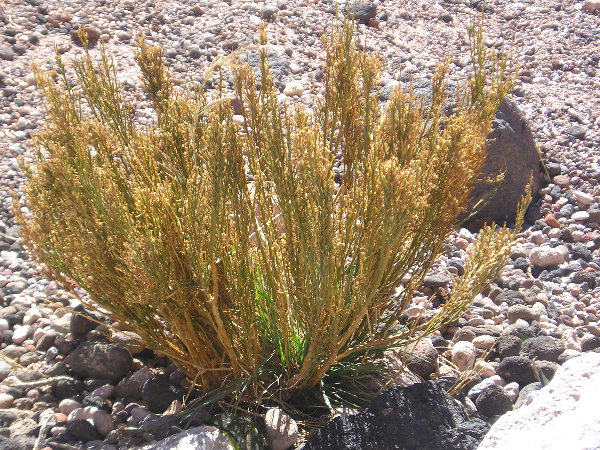 Pingo-pingo (Ephedra andina) Photo taken near Socaire, south of San Pedro de Atacama, Chile